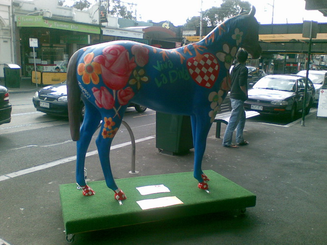 Makybe Diva sculpture on Glenferrie Road, Hawthron, Melbourne, before 2007 Melbourne Cup